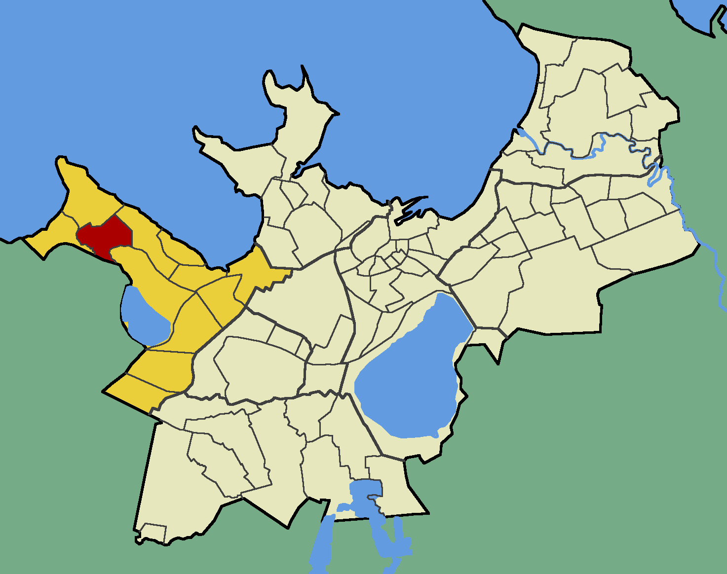 Map of Tallinn (Estonia) with borders of the quarters, Haabersti district and Vismeistri quarter emphasised